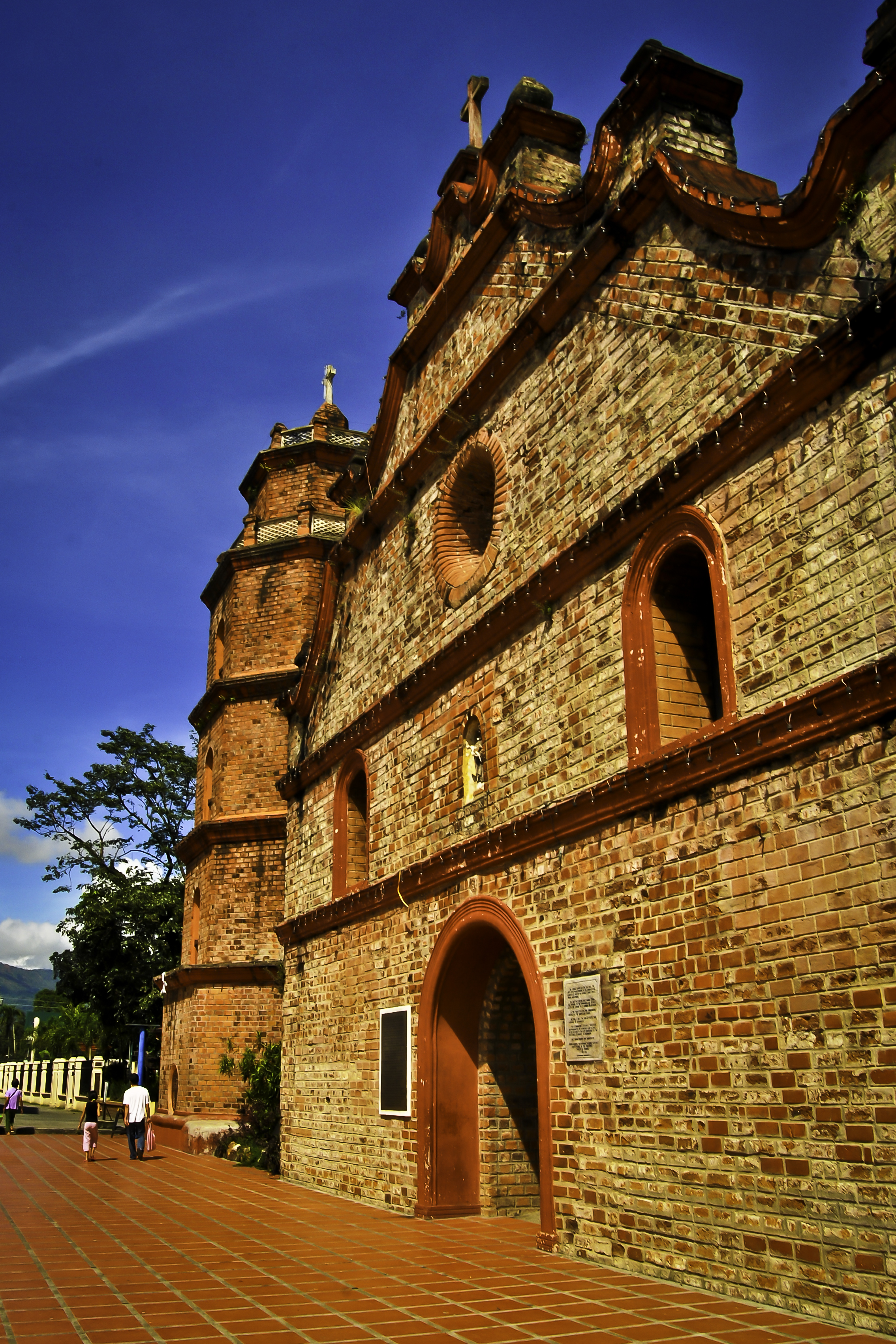 The Saint Dominic Cathedral, commonly referred to as the Bayombong Cathedral has a brick facade